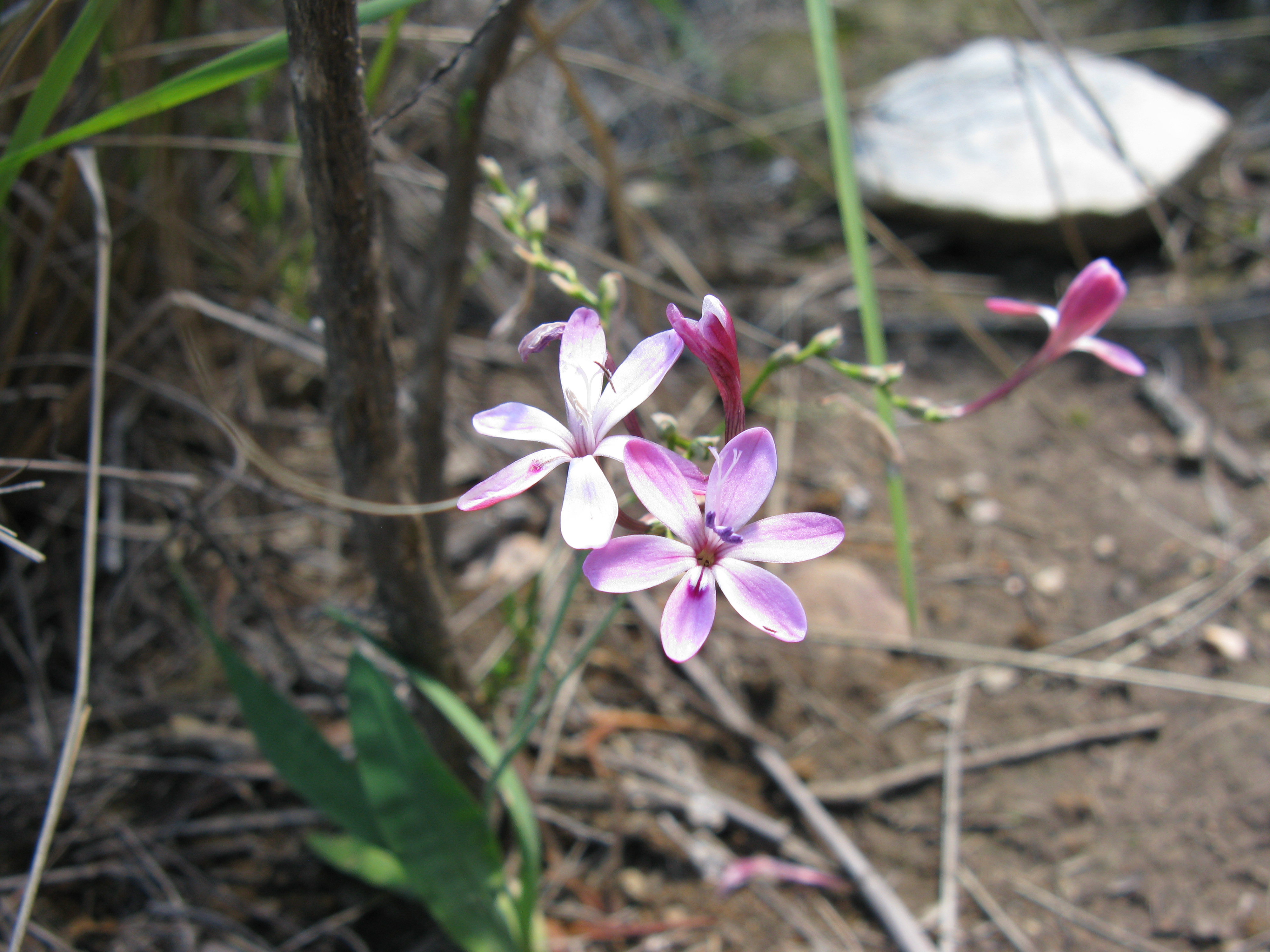 Lapeirousia species flowering near Uniondale South Africa